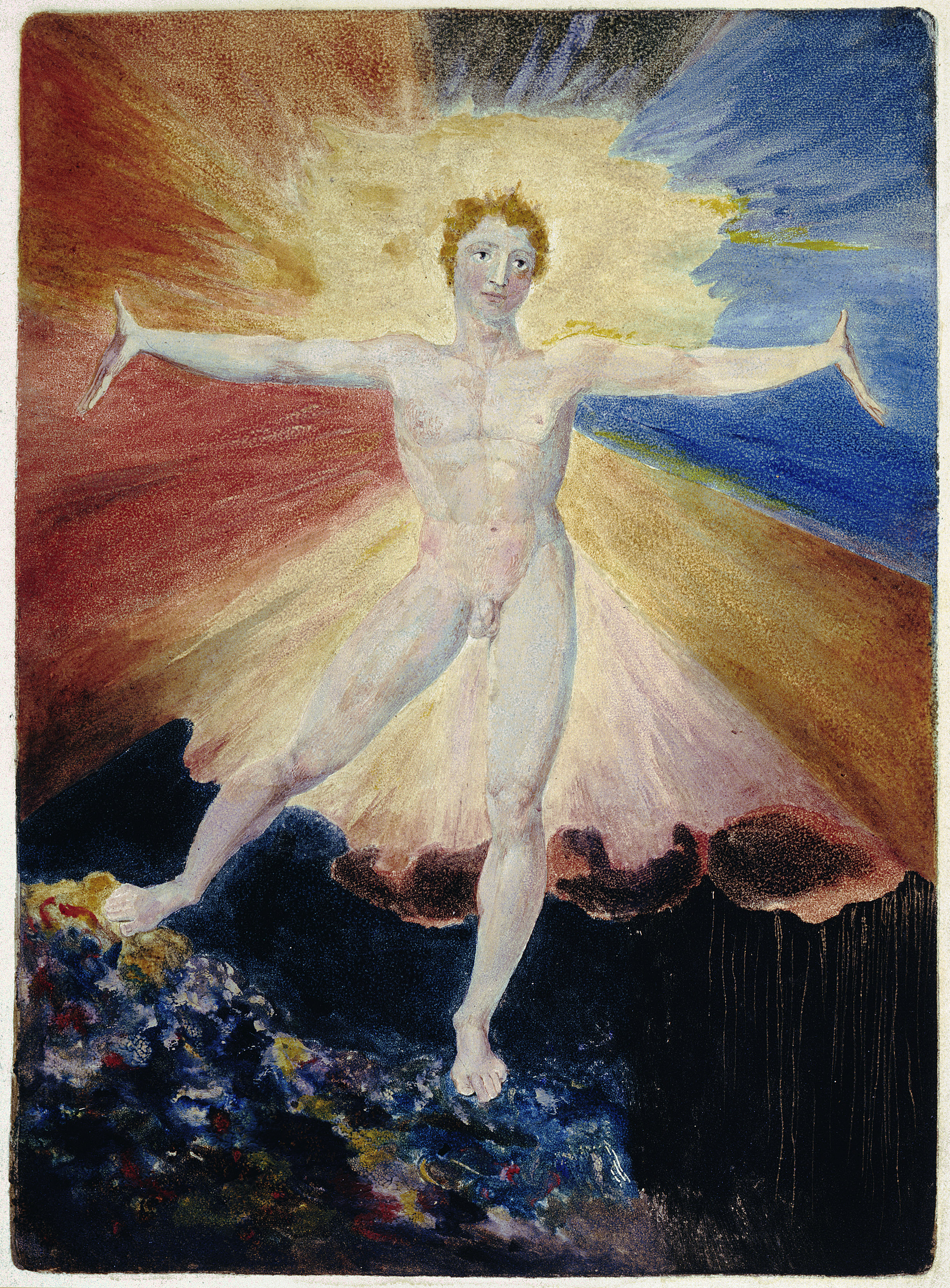 William Blake - Albion Rose - from A Large Book of Designs, Copy A, 1793-6